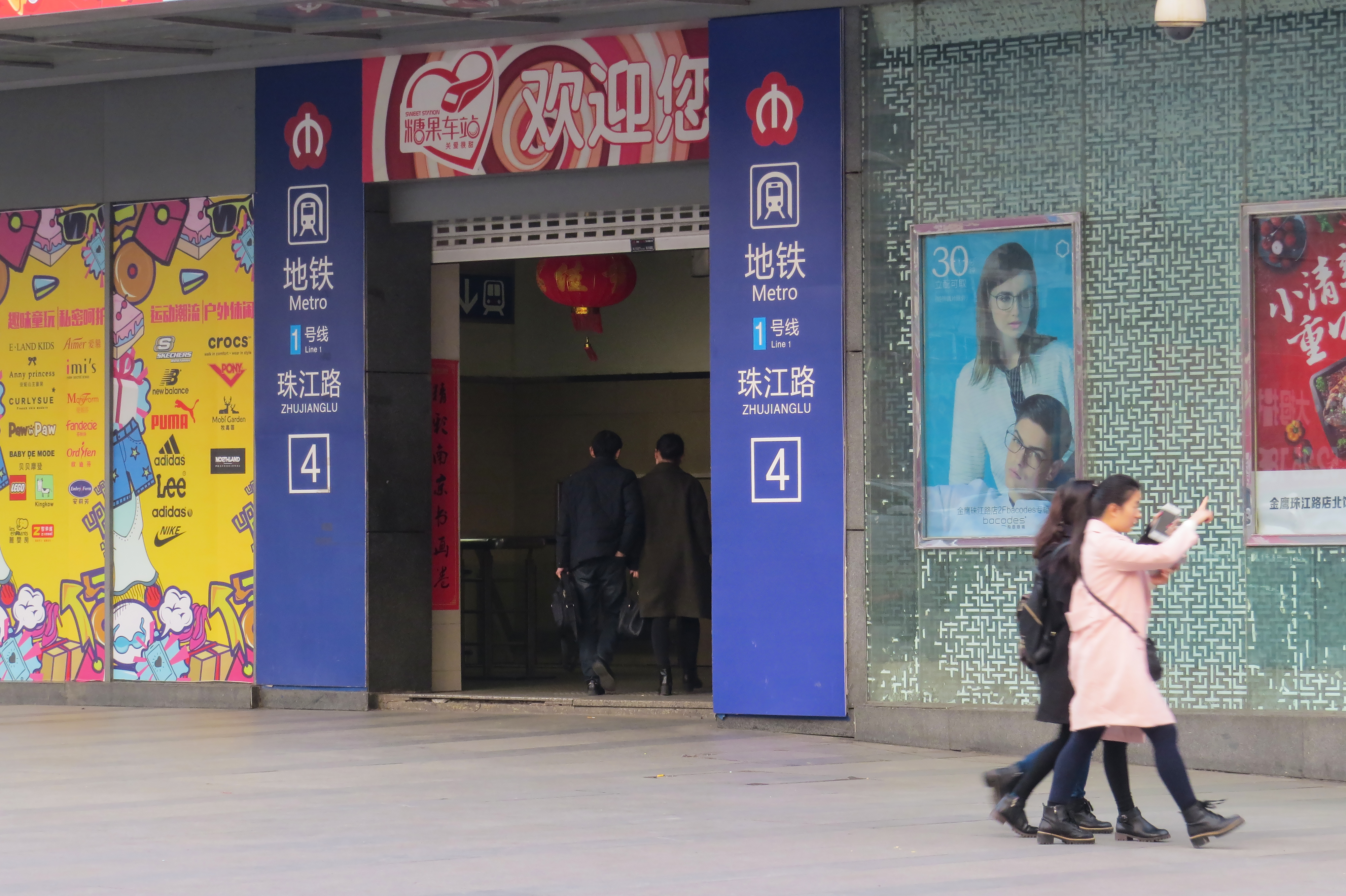 Embedded under a commercial complex.